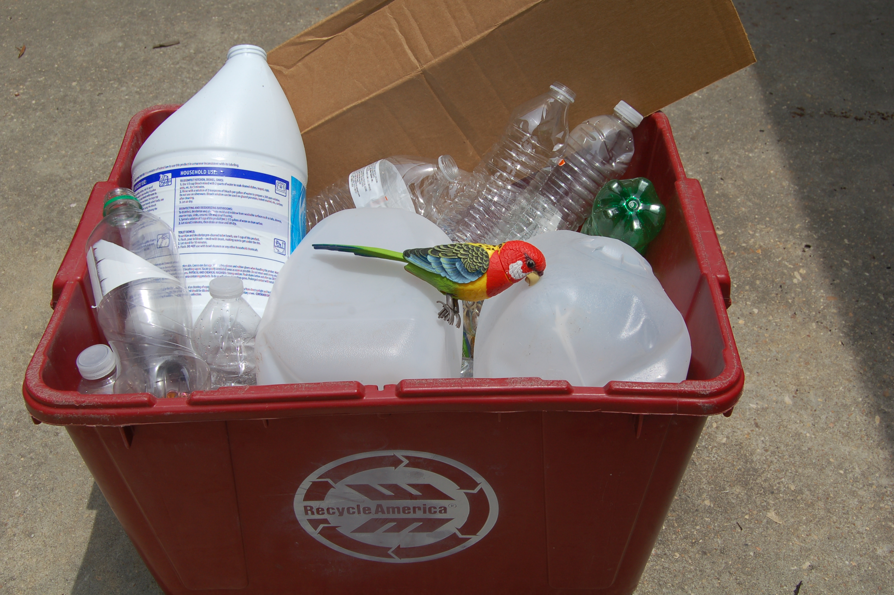 If a plastic bird had a natural habitat.